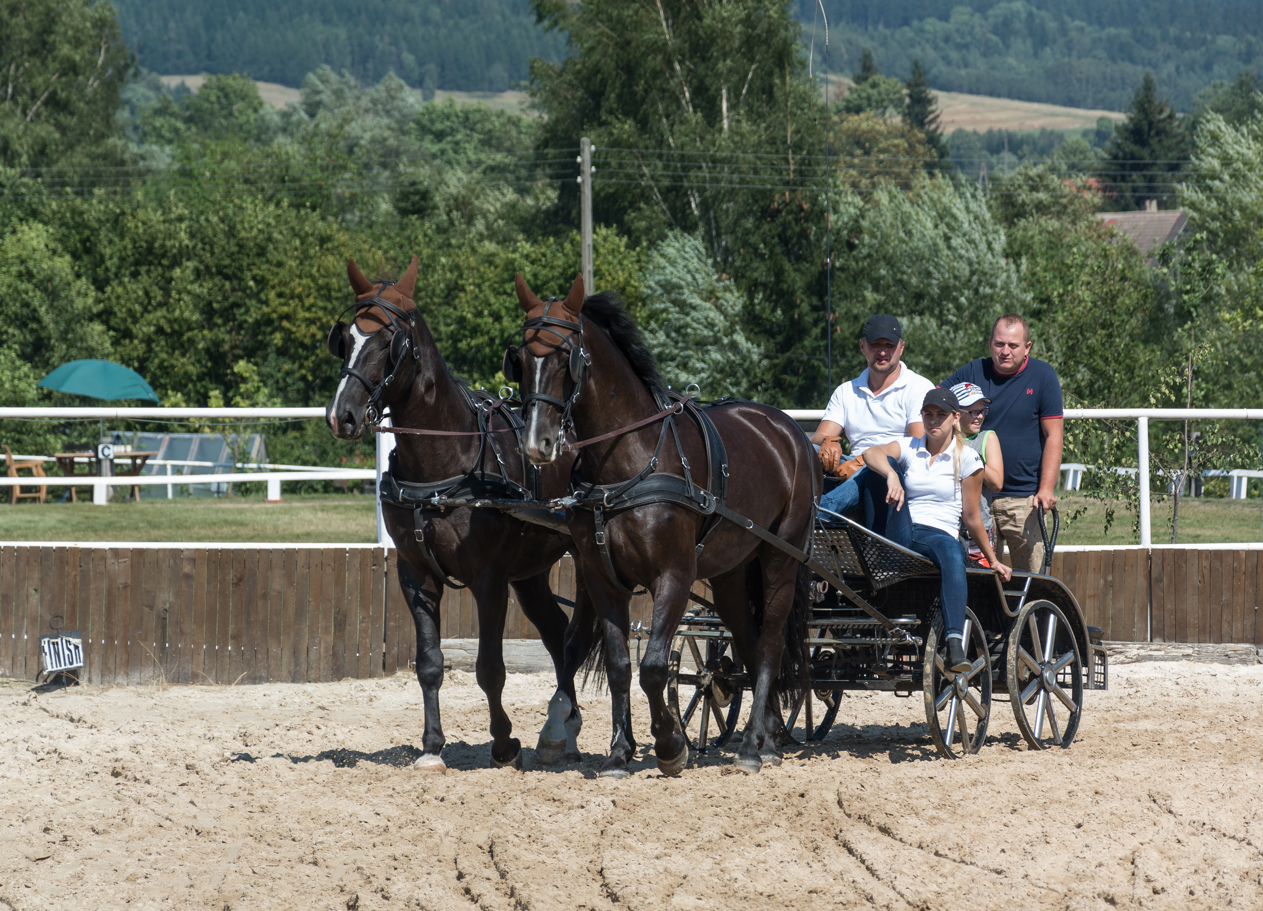 Recreation horse cart in Świdnik